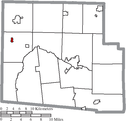 Map of the municipal and township boundaries of Hardin County, Ohio, United States, as of the 2000 census, with the location of the village of Alger highlighted. Township borders are shown only in unincorporated areas in order to differentiate incorporated and unincorporated areas more clearly.